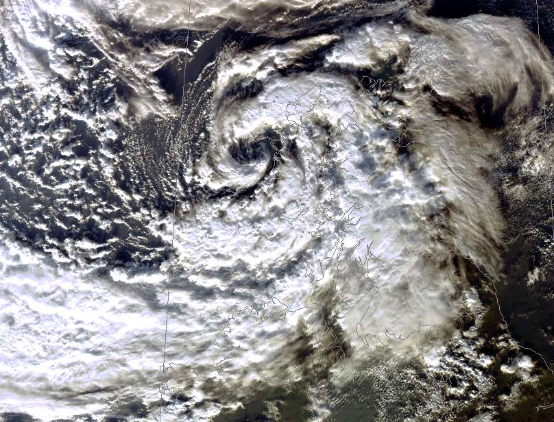 Cyclone Hergen to the west of Scotland while near 945 hPa on 13 December 2011.